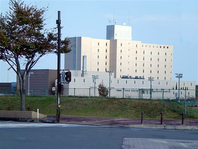 WelSanpia of Hachinohe in Hachinohe Newtown Hachinohe city Aomori,Japan